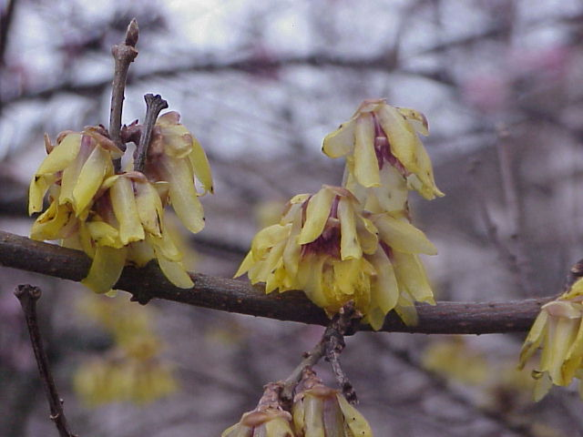 Species: Chomonanthus praecox Family: Calycanthaceae Image No. 1